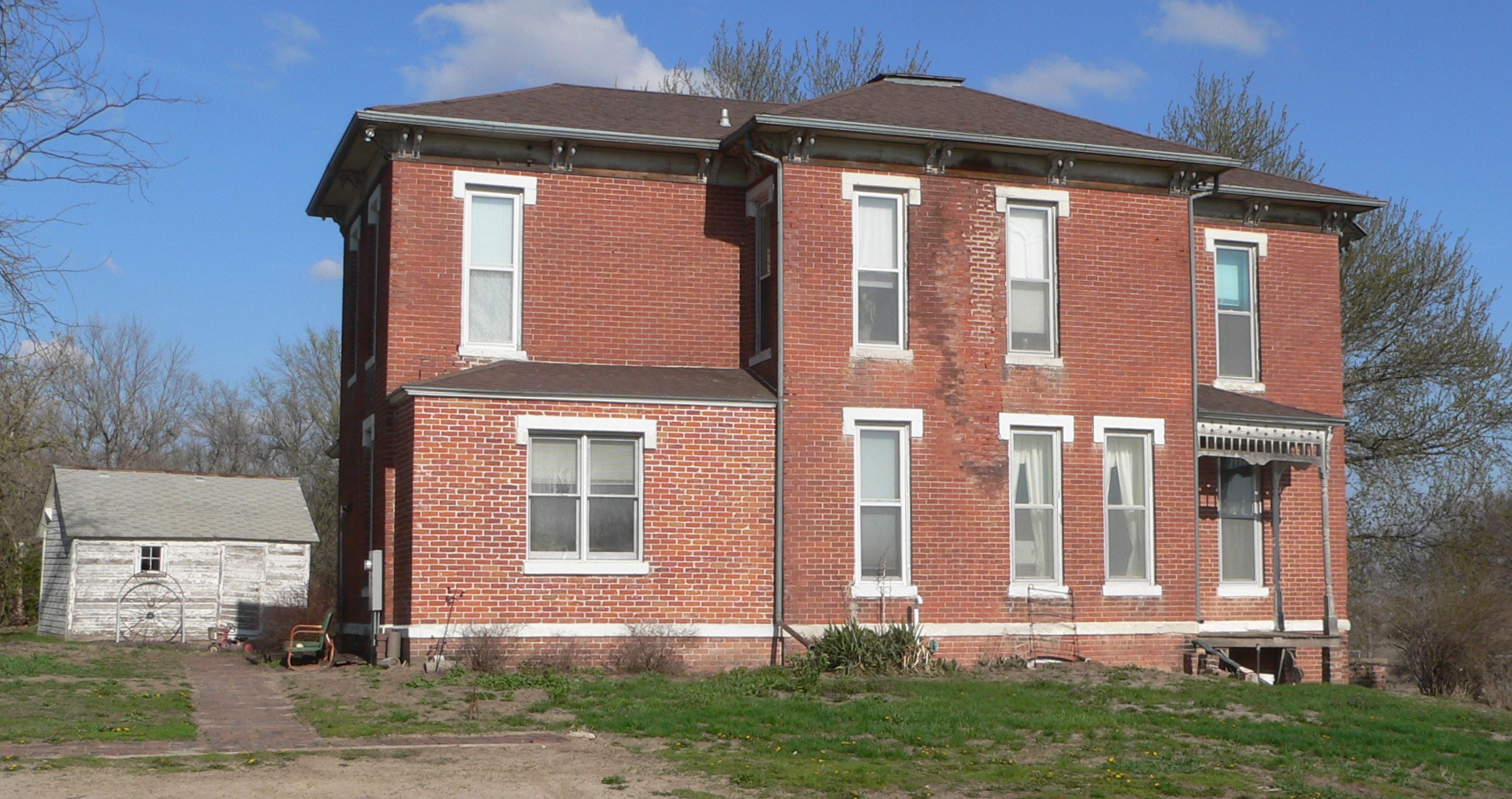 House on Knoell-Bang farmstead, a.k.a. Christopher Knoell farmstead, located south of county road R between county roads 19 and 20, northwest of Fremont in rural Dodge County, Nebraska. View is from the west.